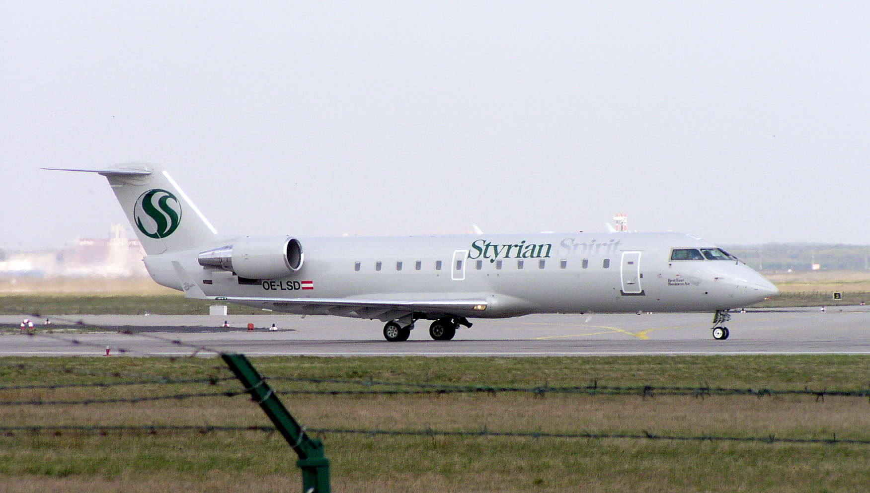 Description: Styrian Spirit Canadair CRJ-200LR OE-LSD in Frankfurt/Main, April 2003. Photographer: Arcturus Licence: GFDL + cc-by-sa-2.0-de